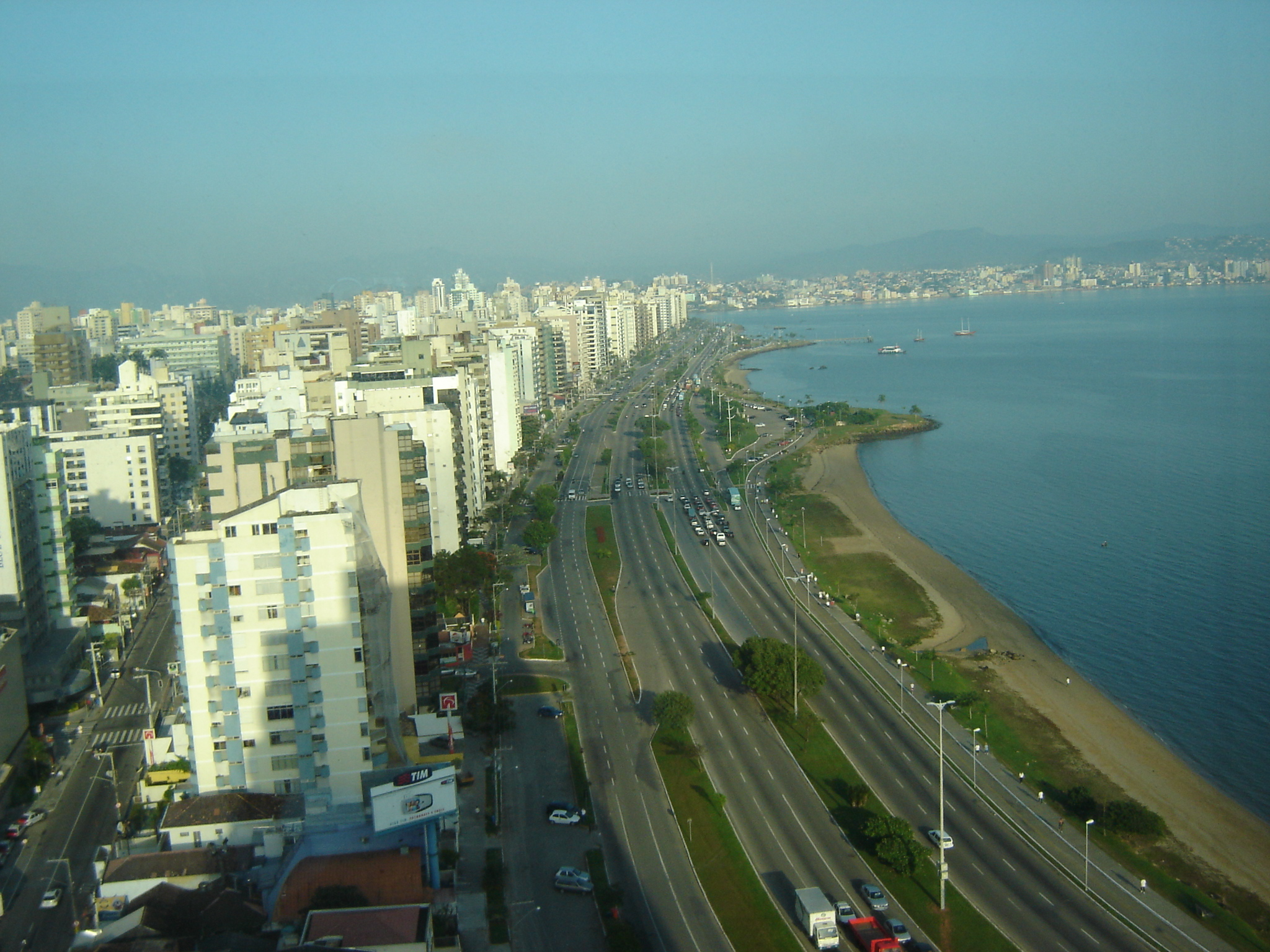 Florianopolis, Avenida Beira Mar, Santa Catarina, Brazil